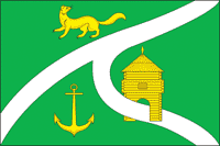 Flag of Ust-Kut city (2009)